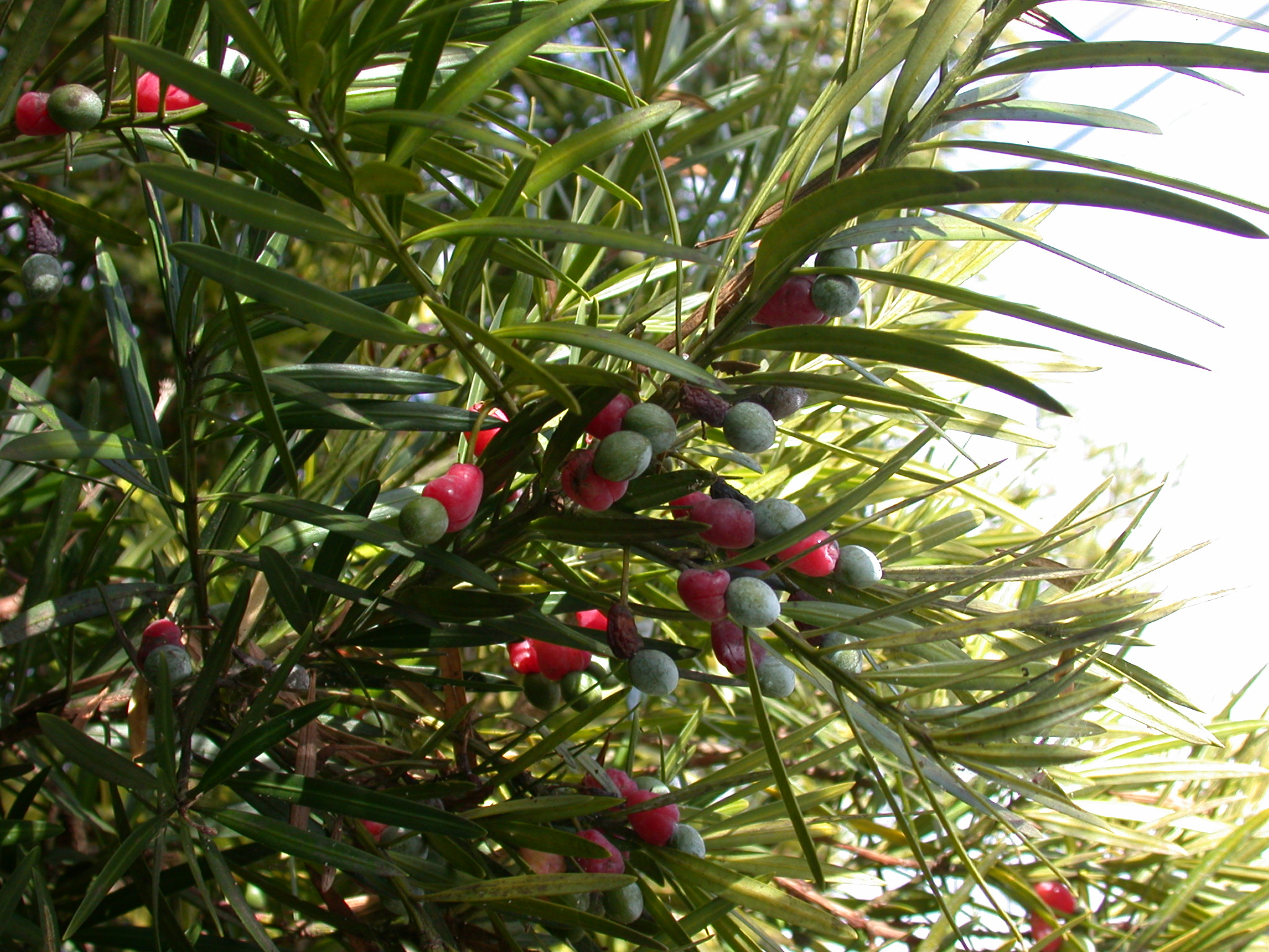 Species Podocarpus_macrophyllus Family Podocarpaceae Japanese name Inumaki Date;2005,12,05.roadside,Tanabe city,Wakayama Pref. Japan Author;Keisotyo